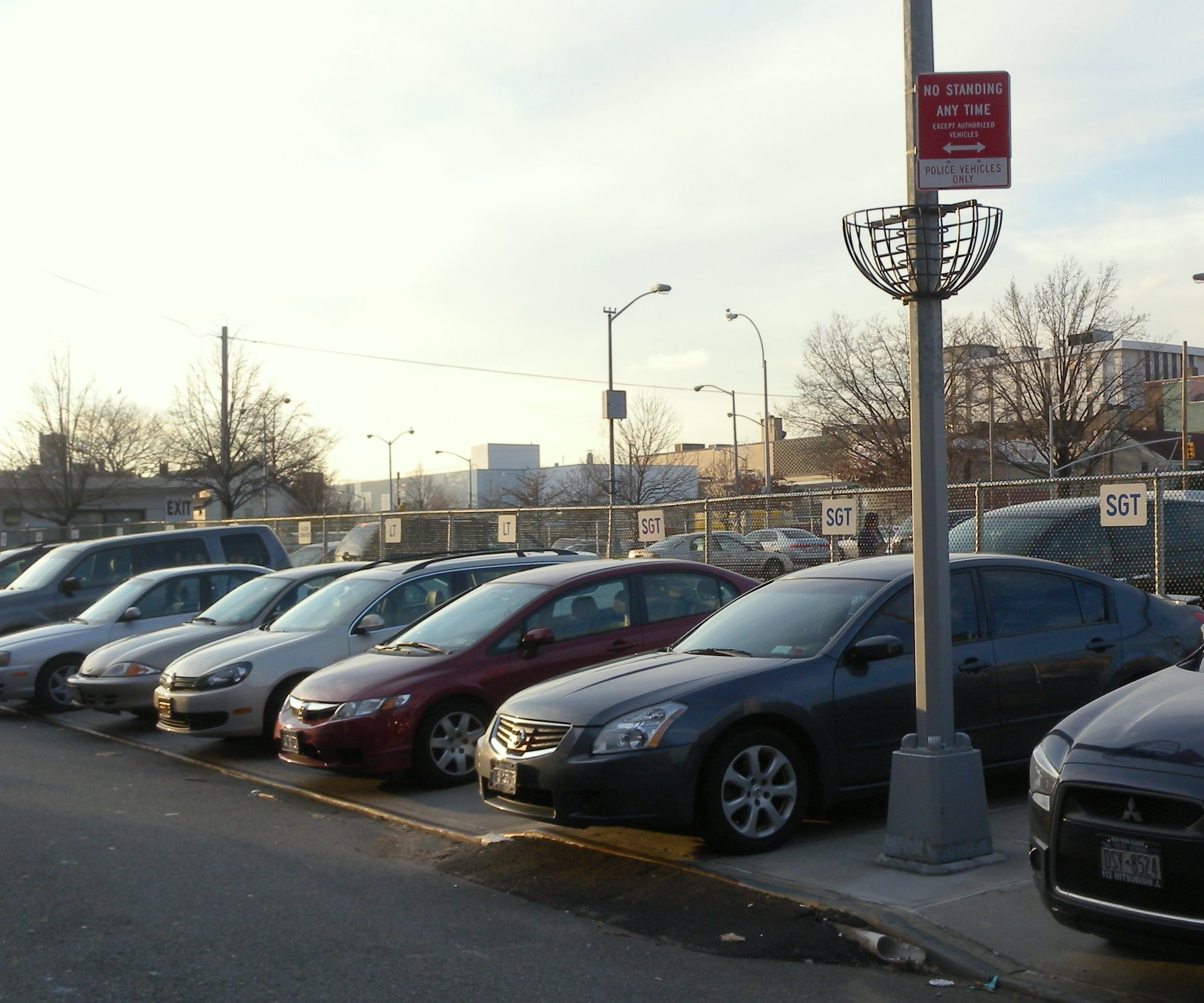 Looking west at parking on the north side of the precinct house on a mostly cloudy late afternoon.